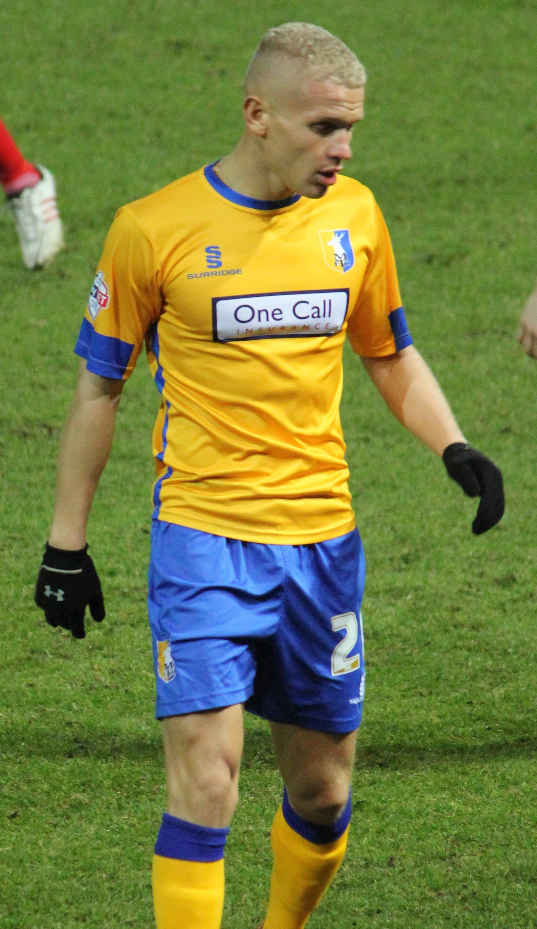 Lindon Meikle playing for Mansfield Town against Accrington Stanley at Field Mill, Mansfield on 21 December 2013